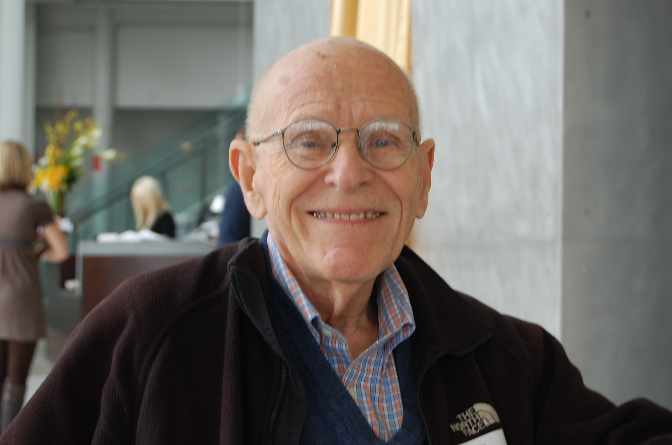 Max Mathews CHM Revolution: The First 2000 Years of Computing, Computer History Museum, January 11, 2011